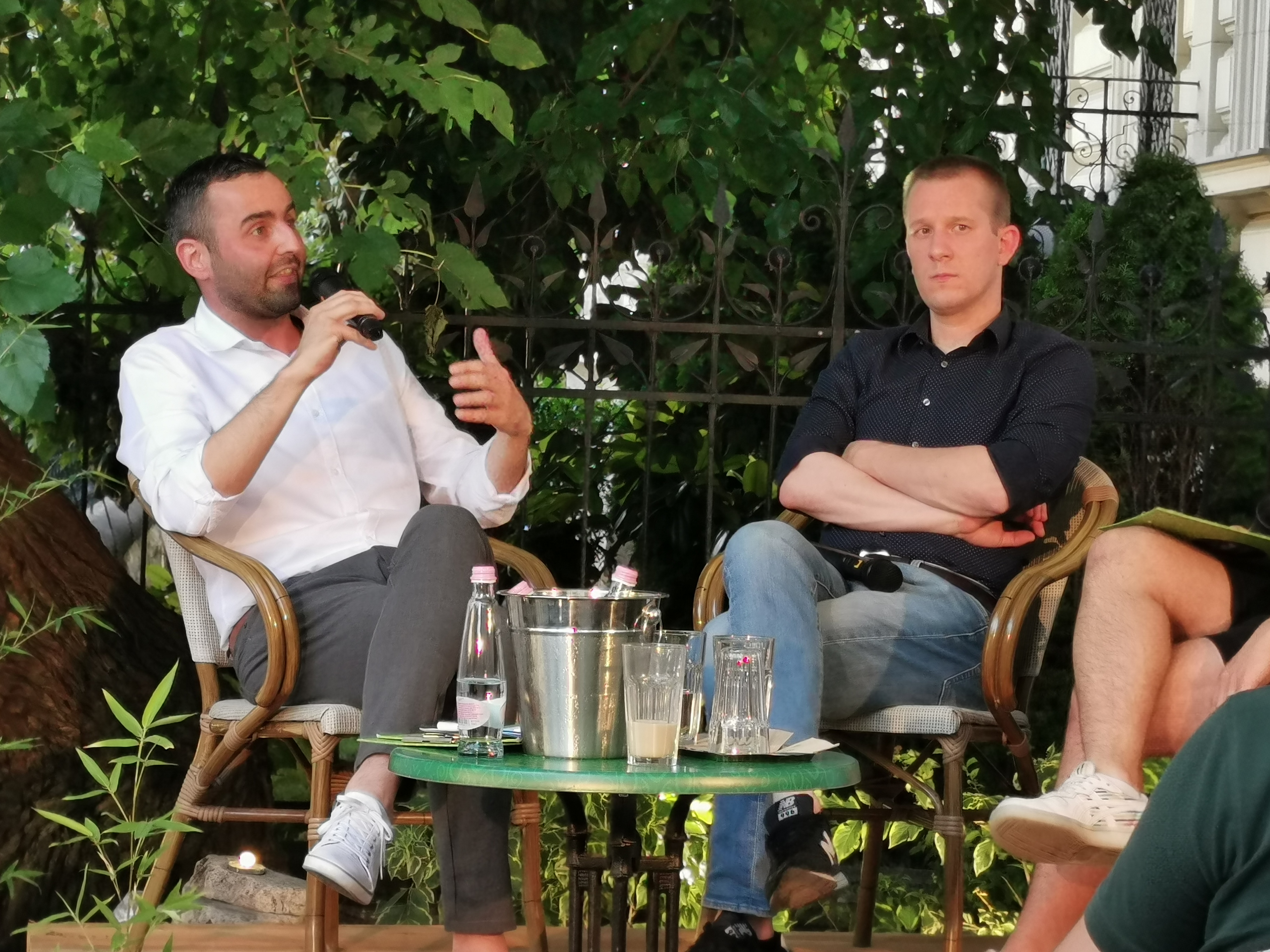 Békés Márton - Pető Péter debate on Index.hu . Magnet House, Andrássy 98, Budapest, Central Europe. Source (info)ː